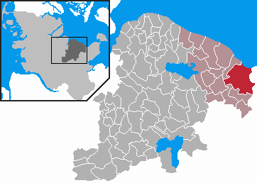 This map shows the area of the Gemeinde (municipality) Blekendorf in the Kreis (district) Plön, Schleswig-Holstein, Germany.